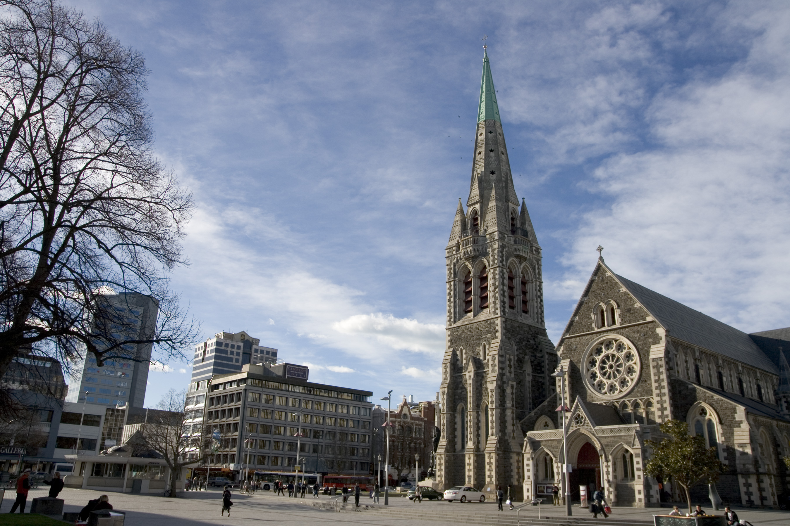 Christchurch City Centre